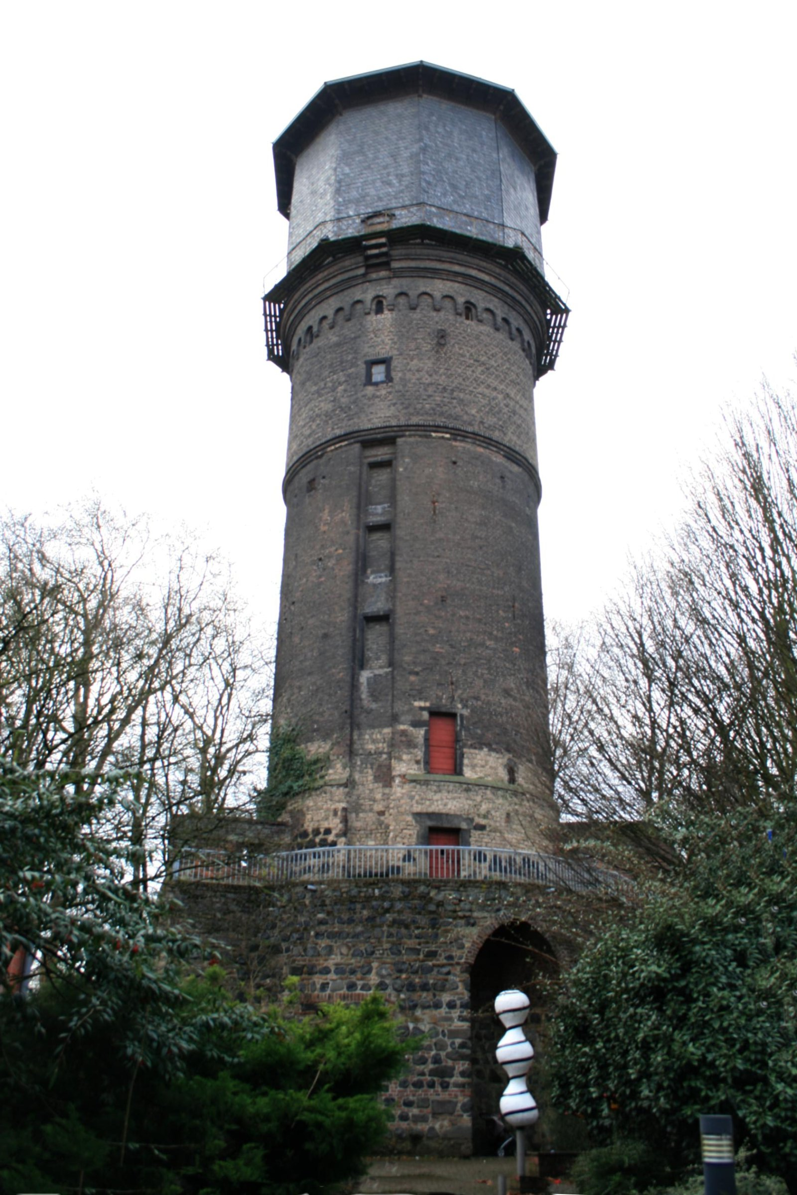 This is a photograph of an architectural monument.